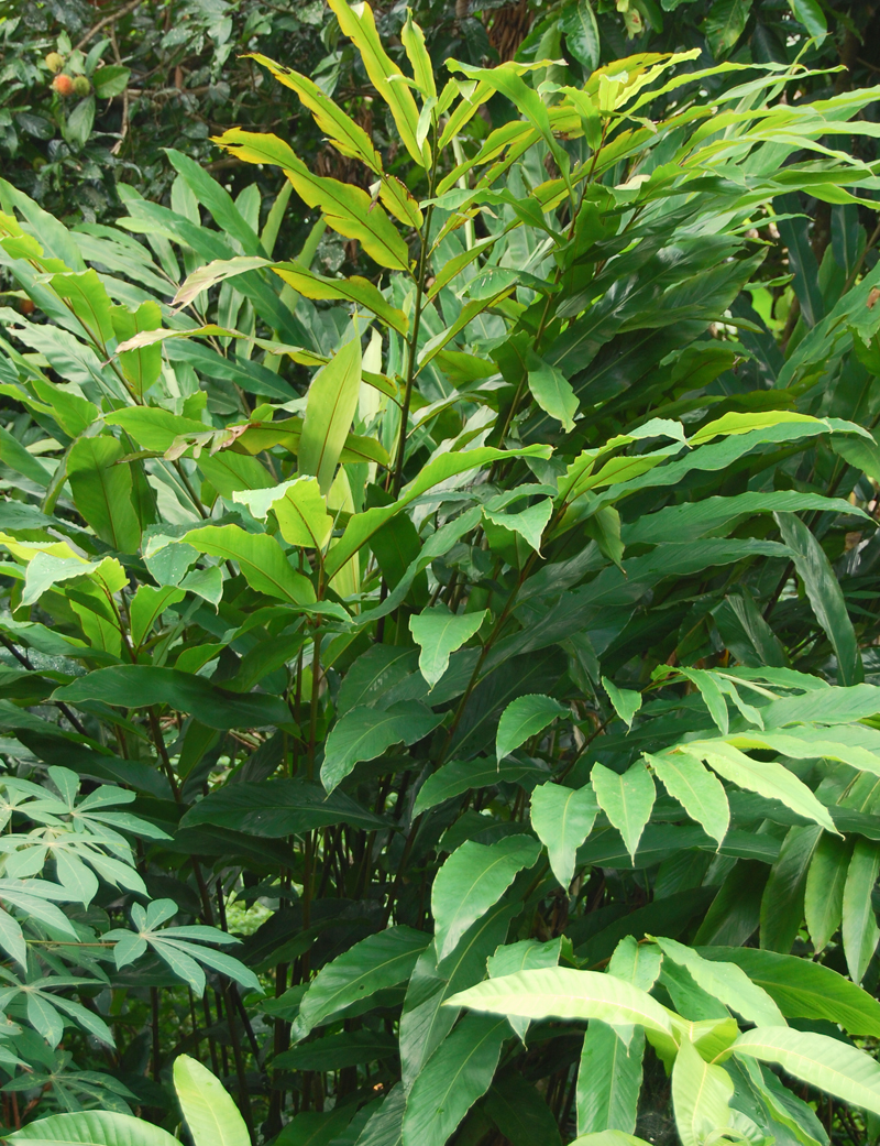 Hornstedtia alliacea, habits. Planted at homegarden in Sukabumi, West Java.